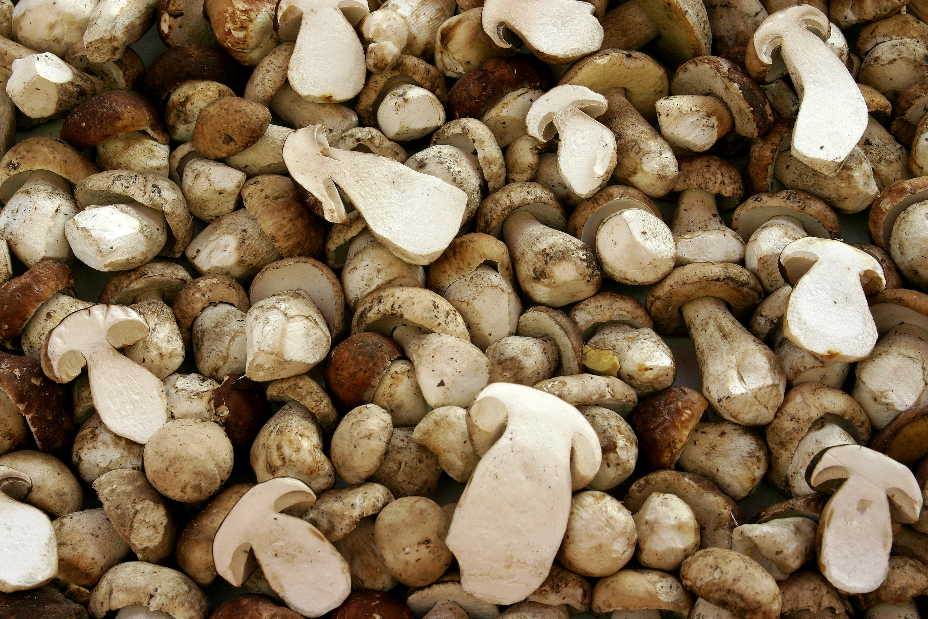 Boletus